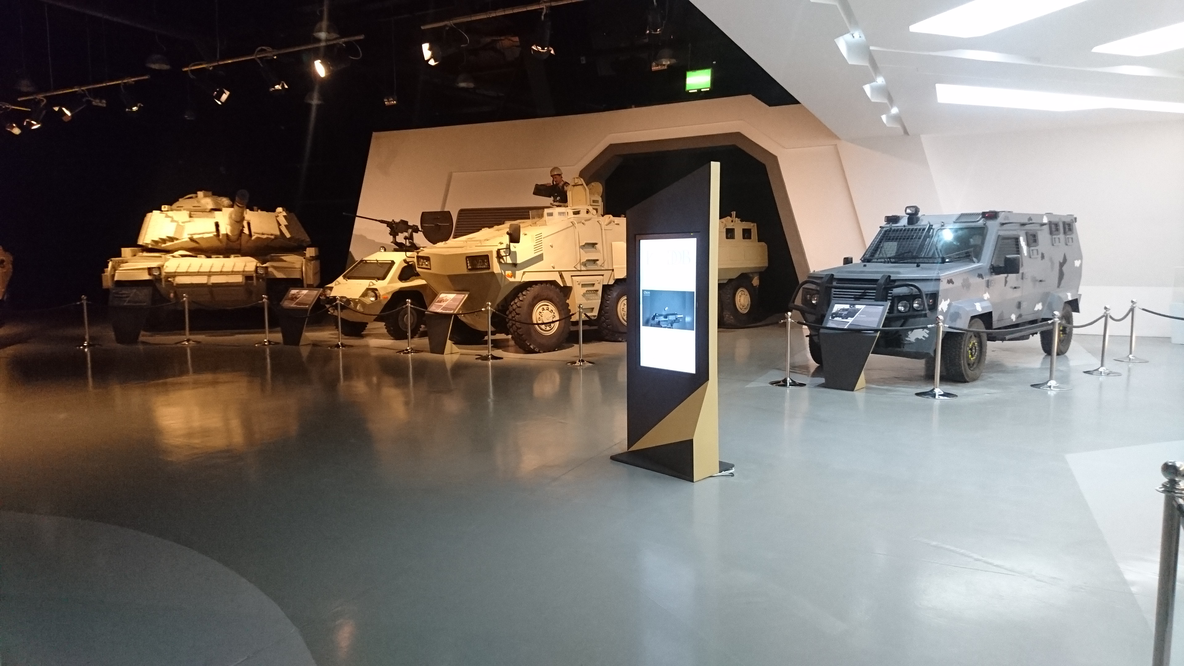 Jordanian military vehicles by KADDB in the Royal Tank Museum